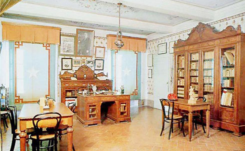 studio del poeta